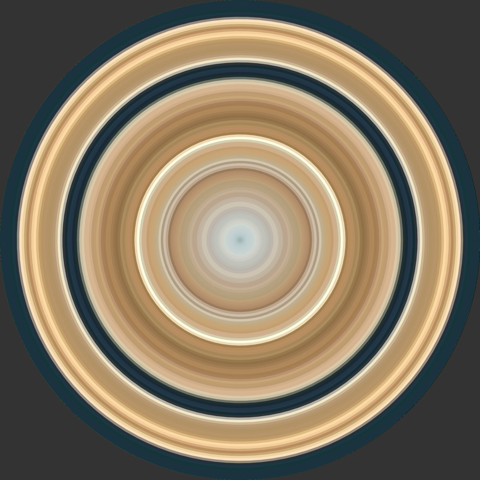 Still from a video designed to be projected on a giant dome.